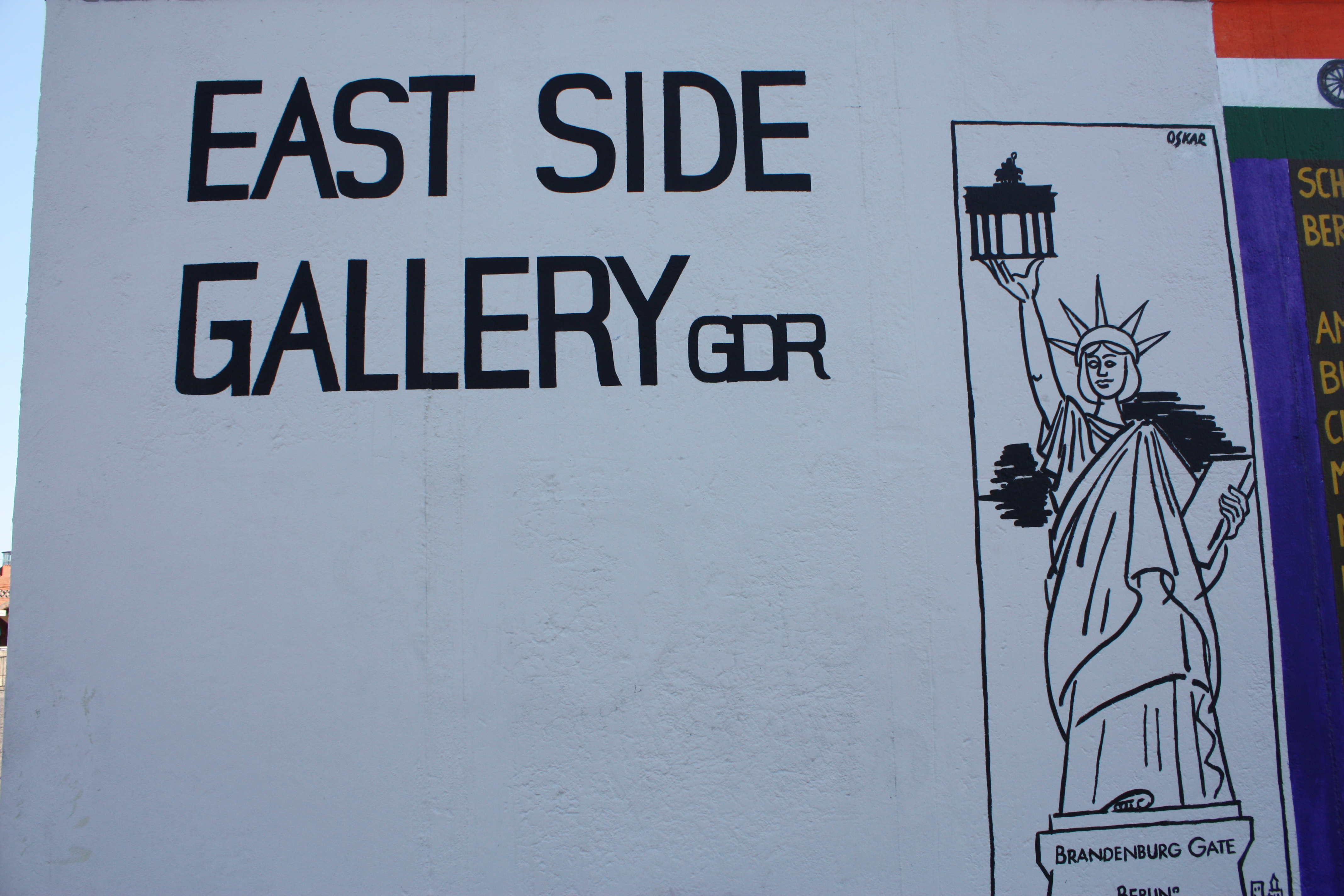 The East Side Gallery, an international memorial for freedom on a 1.3km long section of the Berlin Wall, near the centre of Berlin on Mühlenstraße in Friedrichshain-Kreuzberg.